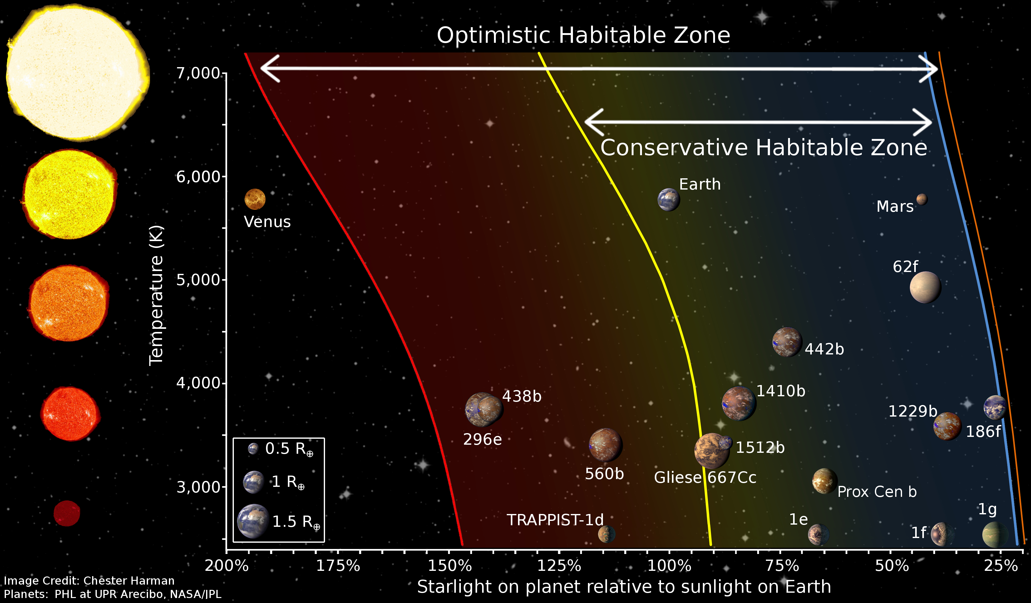 This is the most widely used diagram for explaining the Habitable Zone. Shown is temperature vs starlight received. Important exoplanets are placed on the diagram, plus Earth, Venus, and Mars.